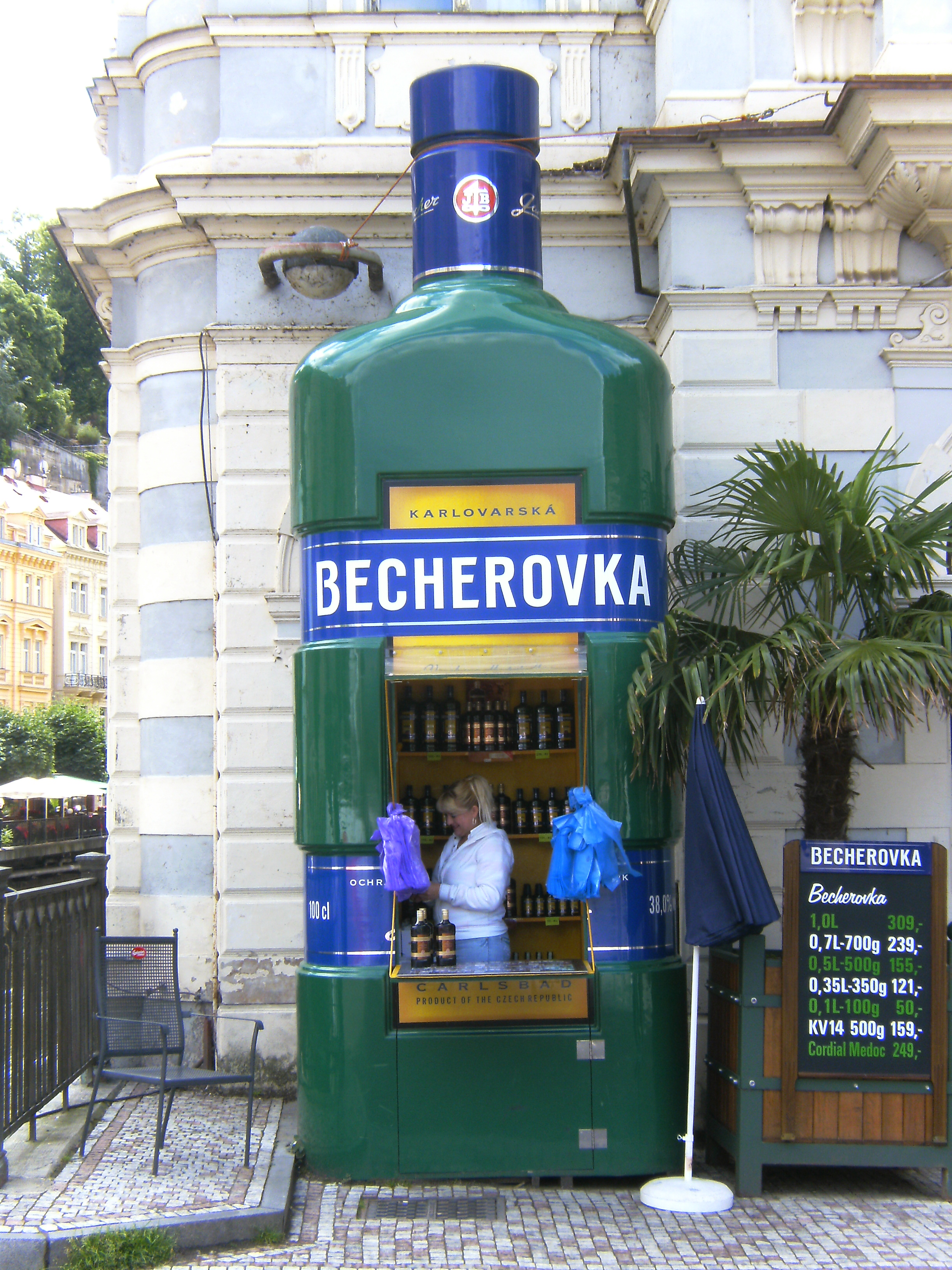 Becherovka advertisement and shop, Lázeňská 19, Karlovy Vary